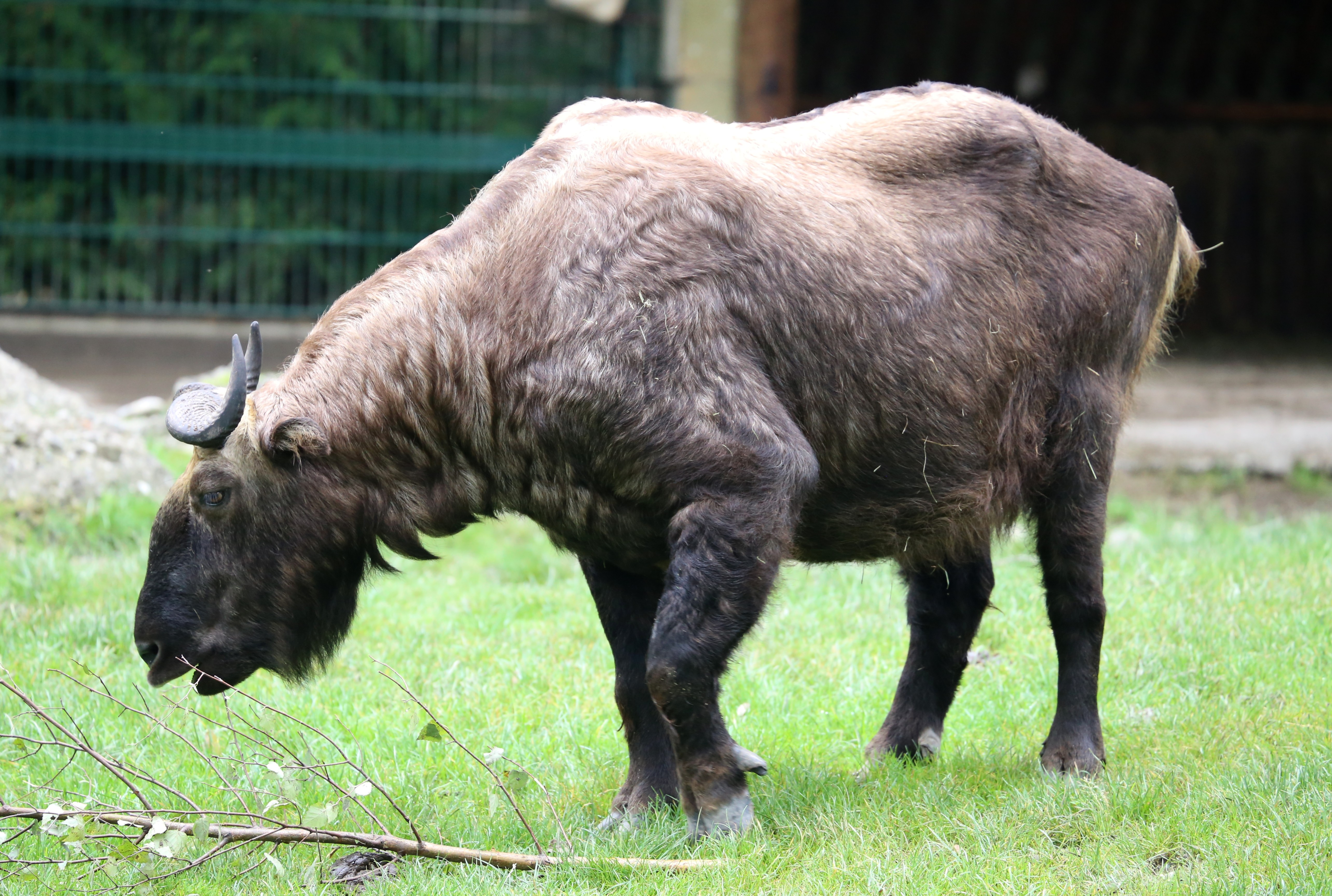 Mishmi-Takin, Budorcas taxicolor taxicolor, Zoo Augsburg